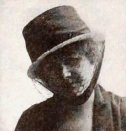 American screenwriter Lois Zellner (1901 – 1987), on page 43 of the May 1, 1920 Exhibitors Herald.